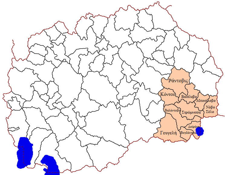 The municipalities of Southeastern Statistical Region of North Macedonia in Greek language.